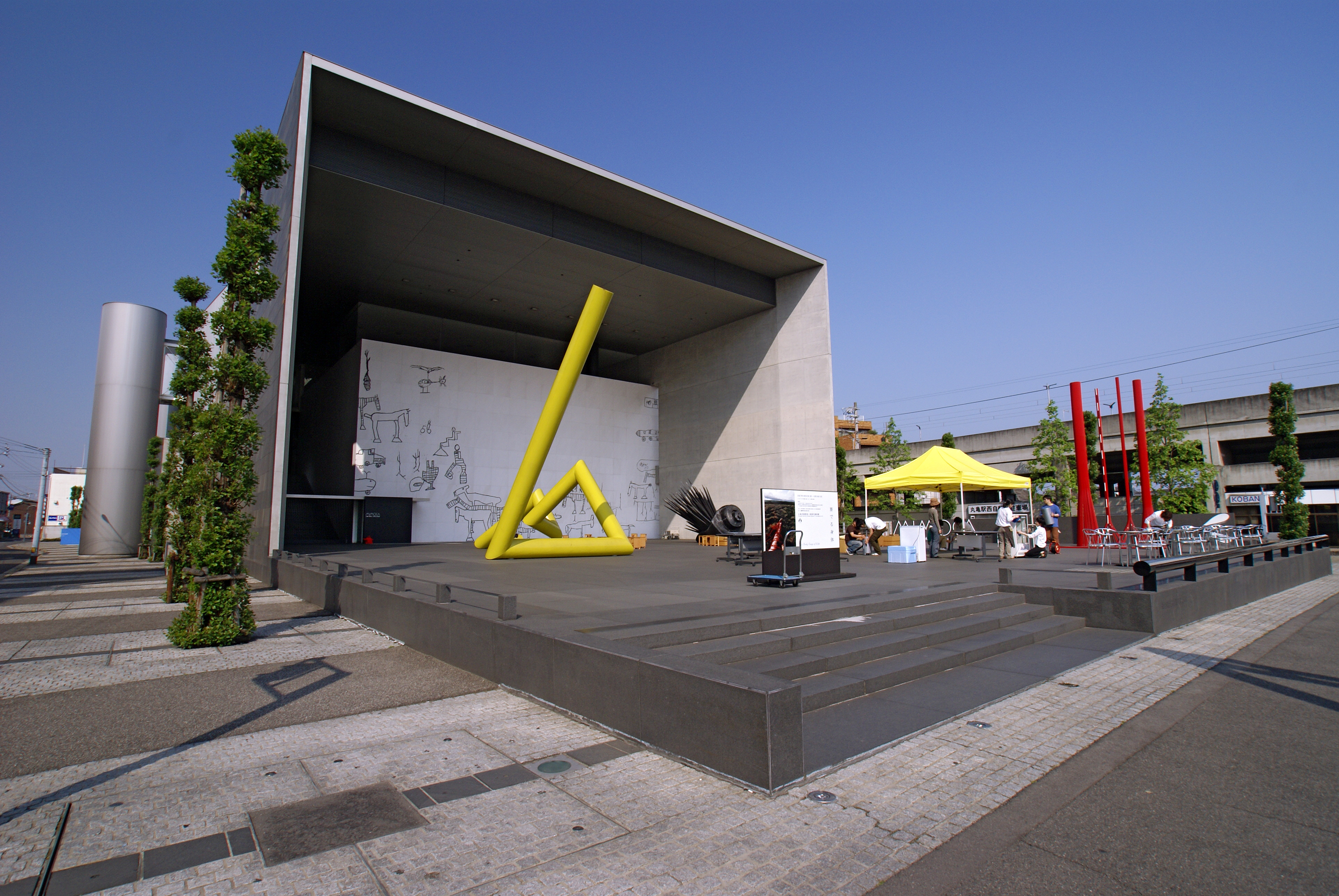 Marugame Genichiro-Inokuma Museum of Contemporary Art in Marugame, Kagawa prefecture, Japan